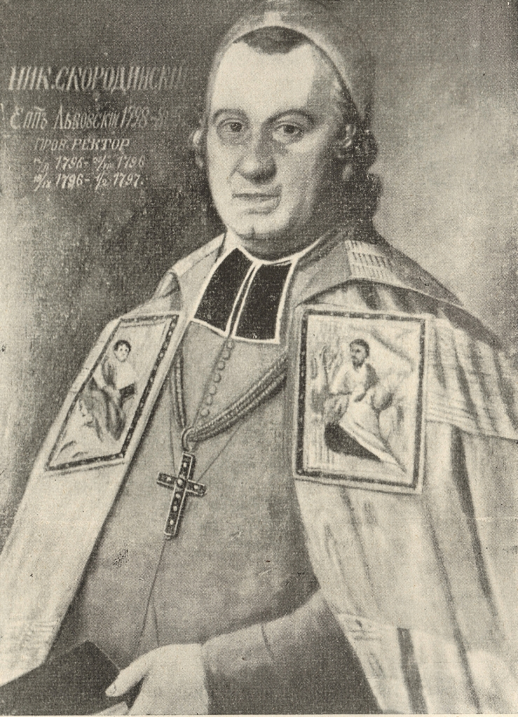 Portrait of the bishop Mikolaj Skorodynski (1751-1805)